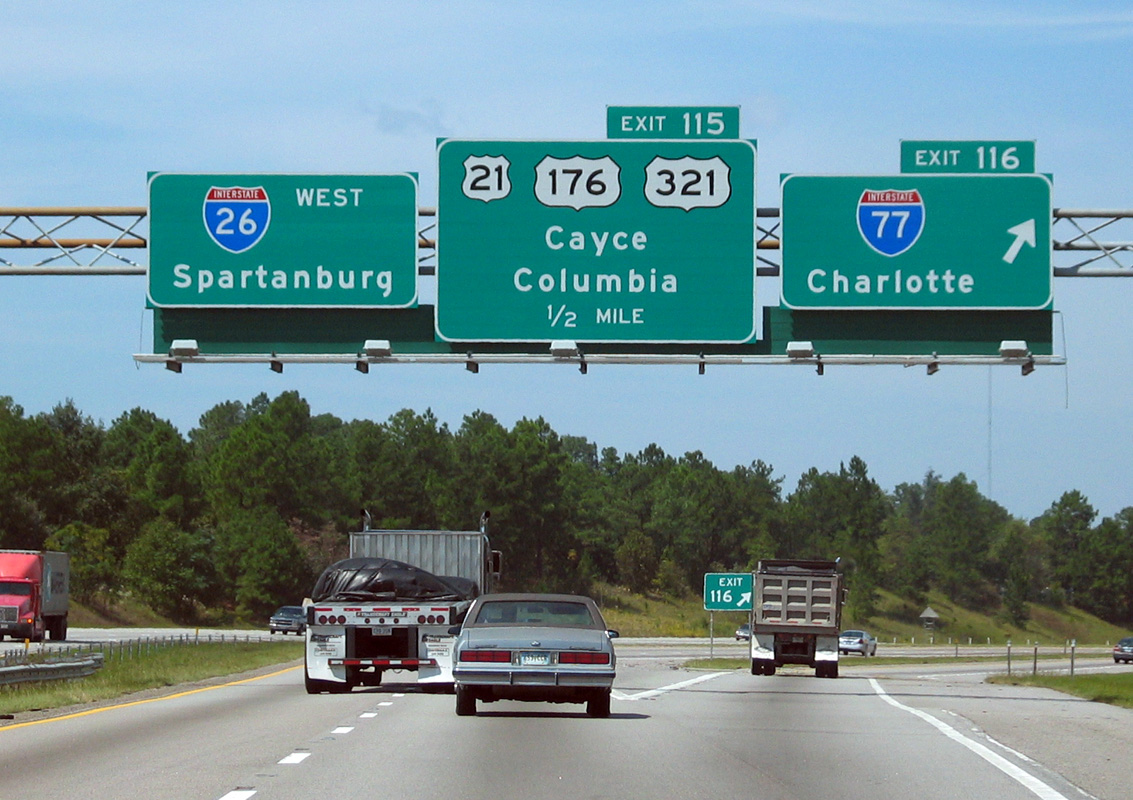 I-26/I-77 split in South Carolina.